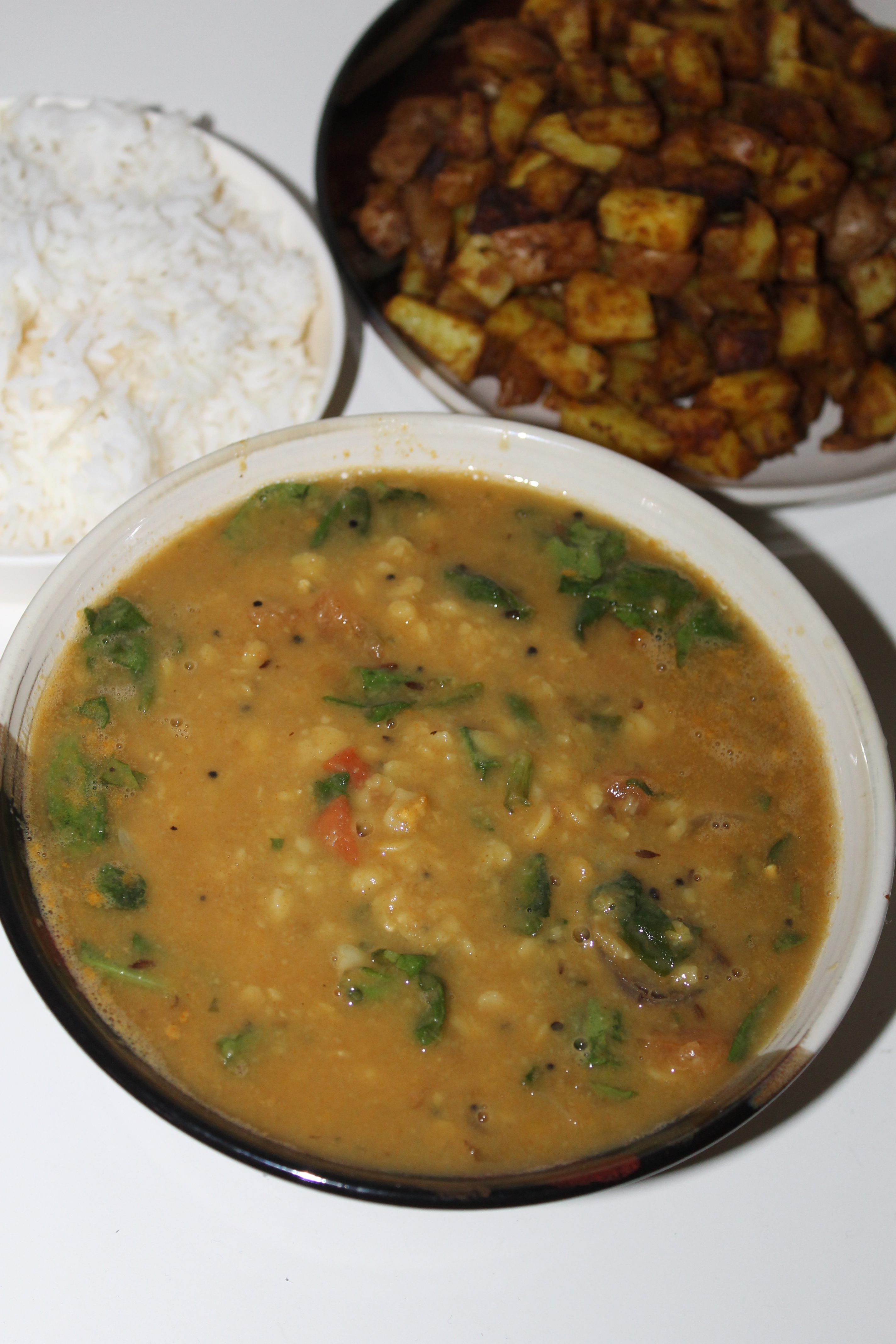 Sambar made with greens